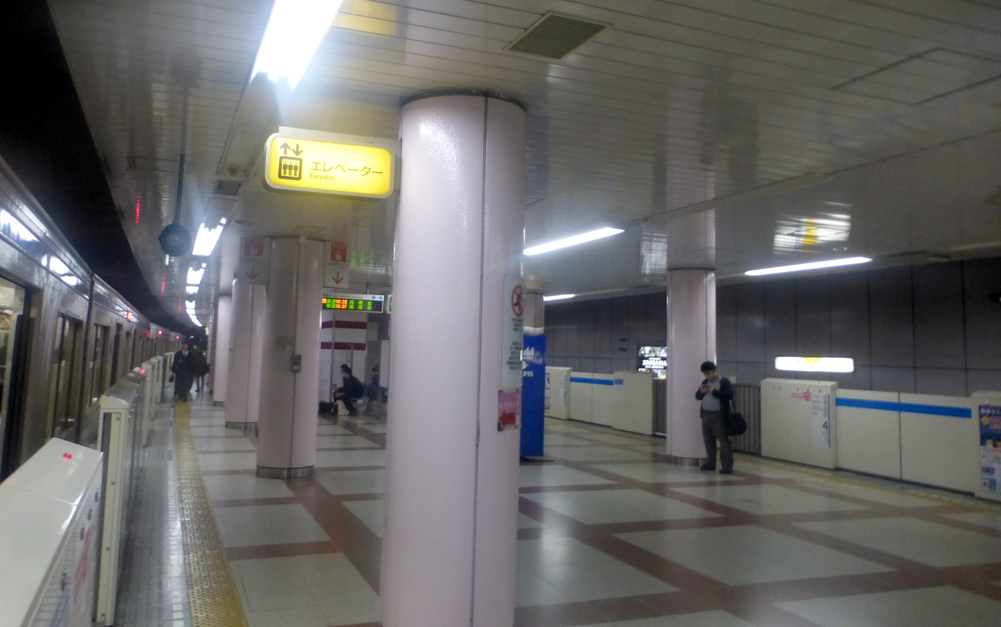 あざみ野駅のホーム (Azamino Station platform, blue line)